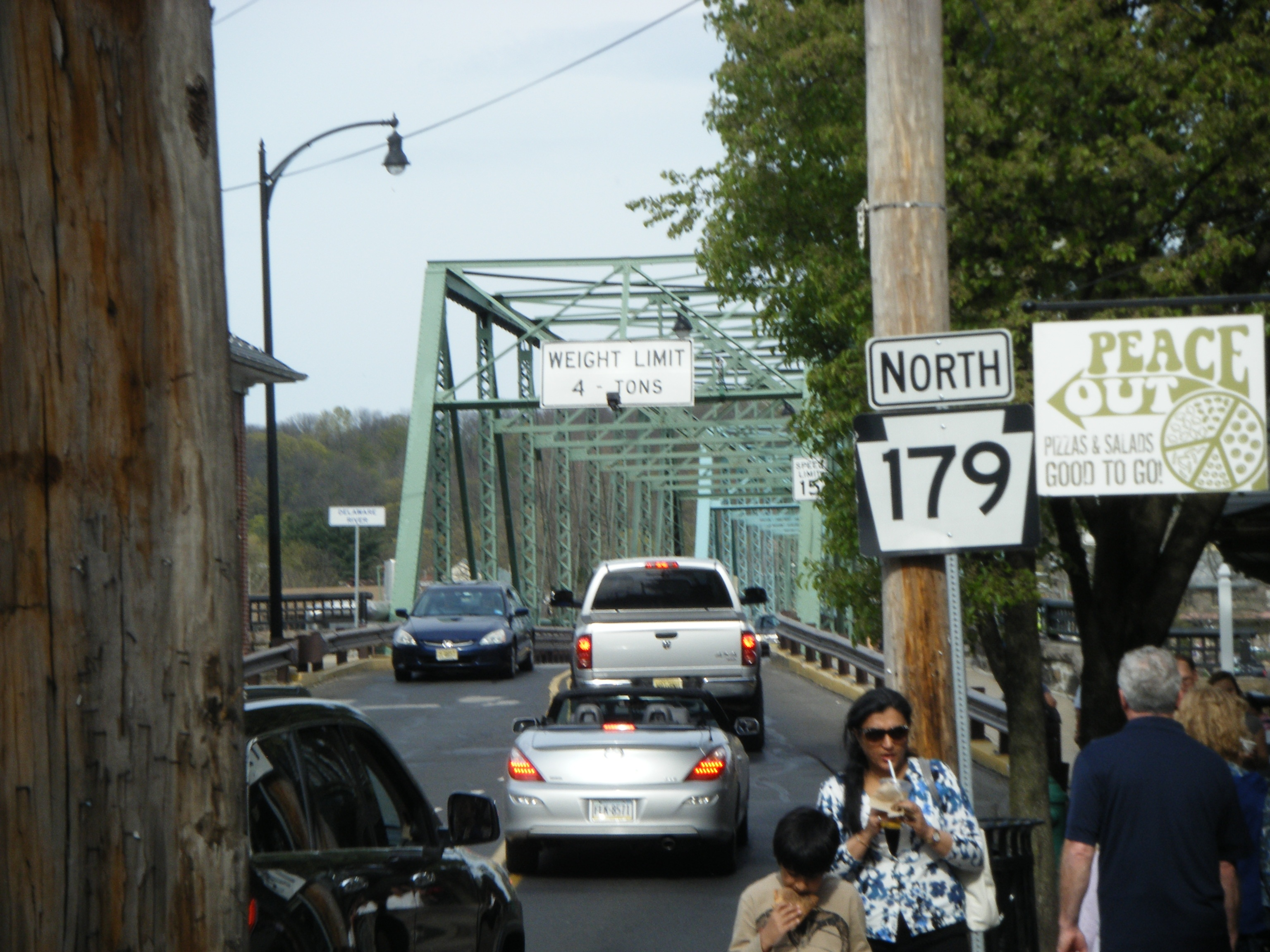 Northbound Pennsylvania Route 179 (Bridge Street) approaching the New Hope-Lambertville Bridge in New Hope.